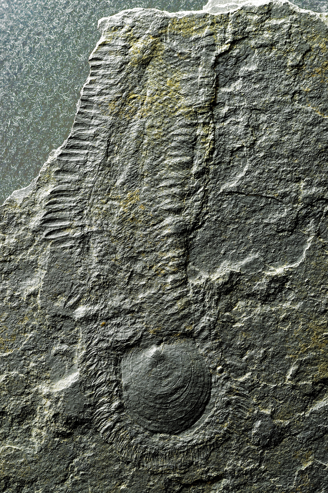 High-resolution photograph of Halkieria evangelista from the Sirius Passet. Specimen SMX26926 is tentatively interpreted as possessing a radula by Conway Morris & Peel (1995). Photograph taken under dark field photography with different angles of illumination, combining two images lit under opposite illumination directions using GIMP's grain extract mode, emphasizing relief.